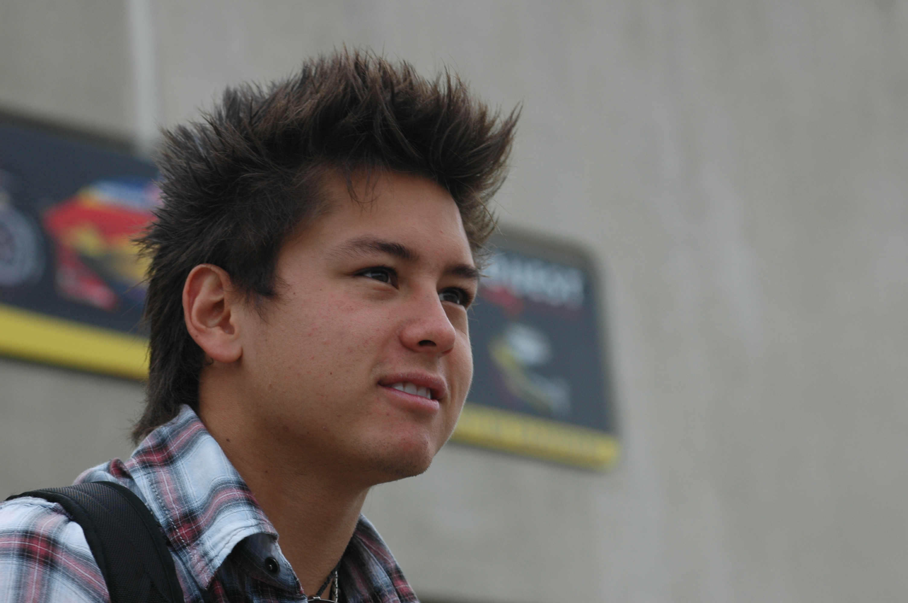 Sebastian Saavedra at the Indianapolis Motor Speedway.